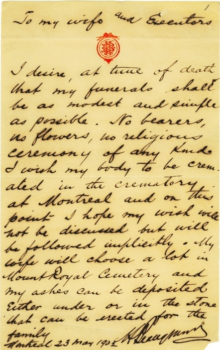 Manuscript, Last wishes of Honoré Beaugrand, 1902, Ink on paper, 20 x 13 cm